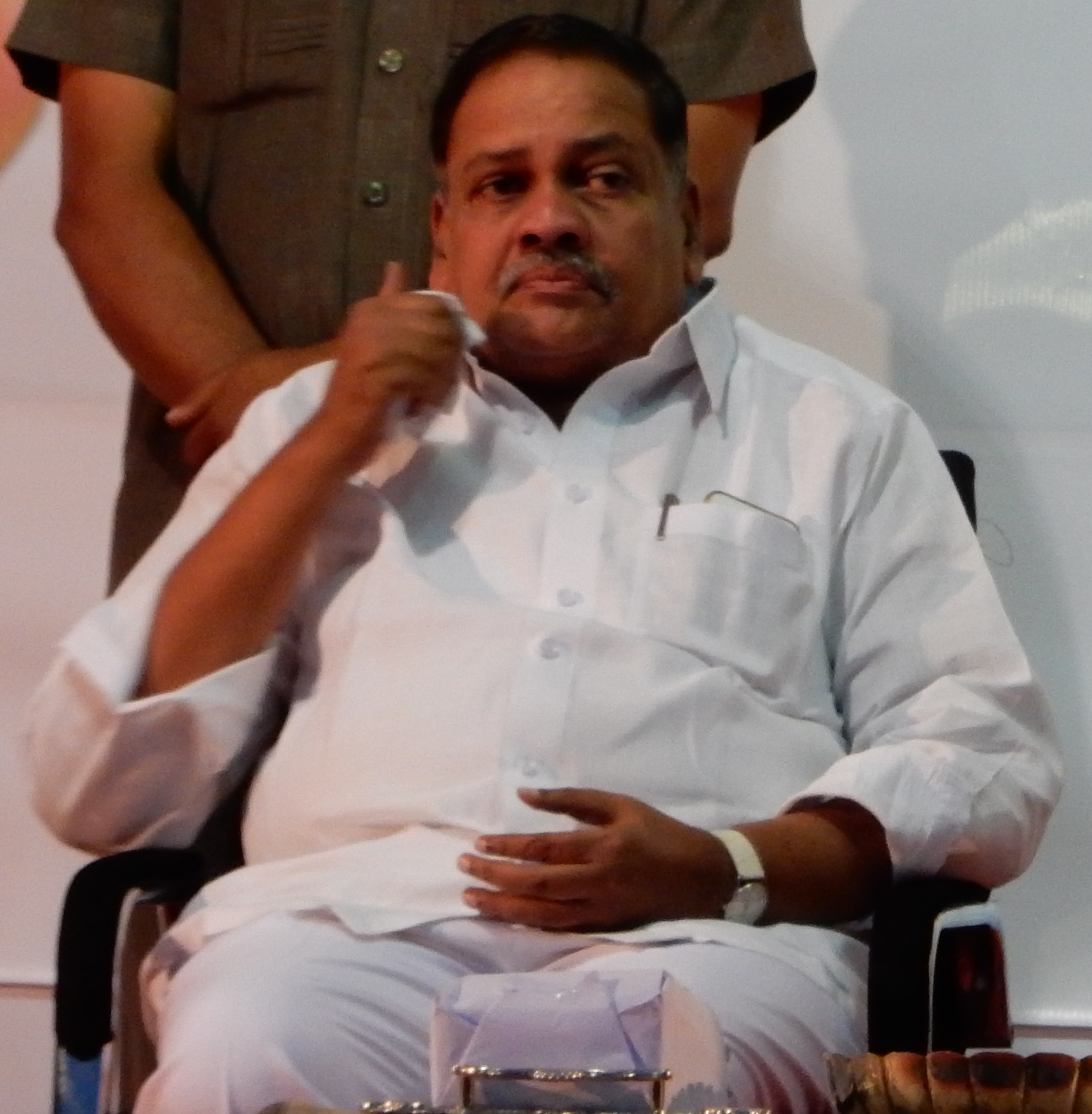 Mandali Buddha Prasad in August 2015. He is an Indian politician hailing from the state of Andhra Pradesh